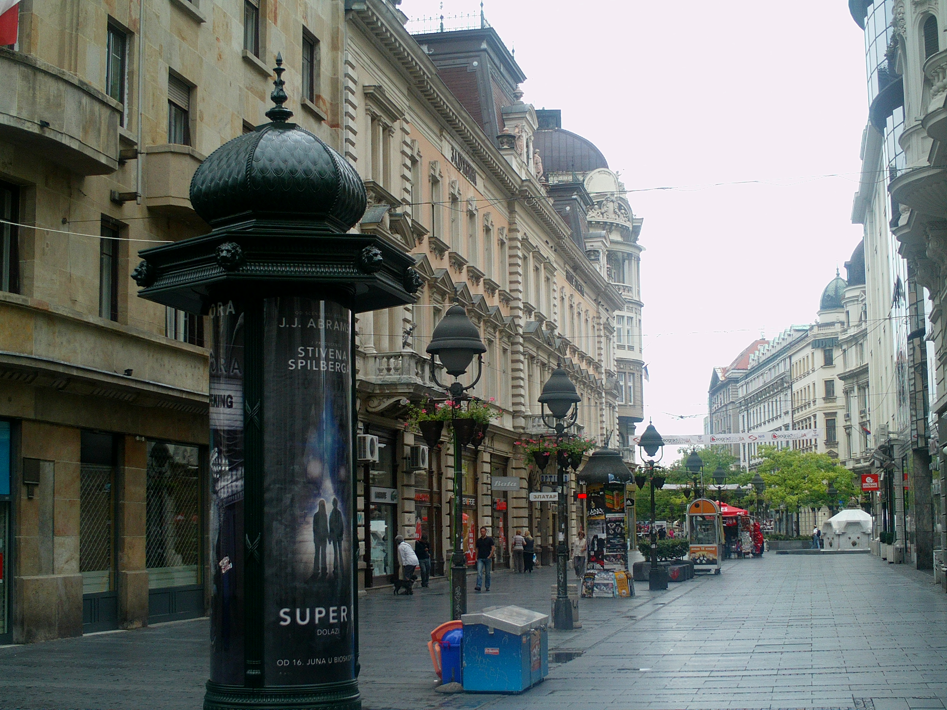 Knez Mihailova Street